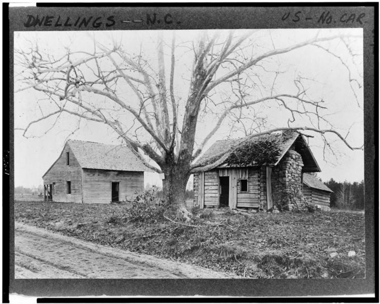 Library of Congress TITLE: [The Bennett place, North Carolina] CALL NUMBER: SSF - Dwellings--North Carolina--1904 [P&P] REPRODUCTION NUMBER: LC-USZ62-108506 (b&w film copy neg.) SUMMARY: House and barn(?) near Durham Station, North Carolina, where General Joseph Johnston surrendered to General Sherman, April 26, 1865. MEDIUM: 1 photographic print. CREATED/PUBLISHED: c1904. CREATOR: Michie, John Chapman, photographer.